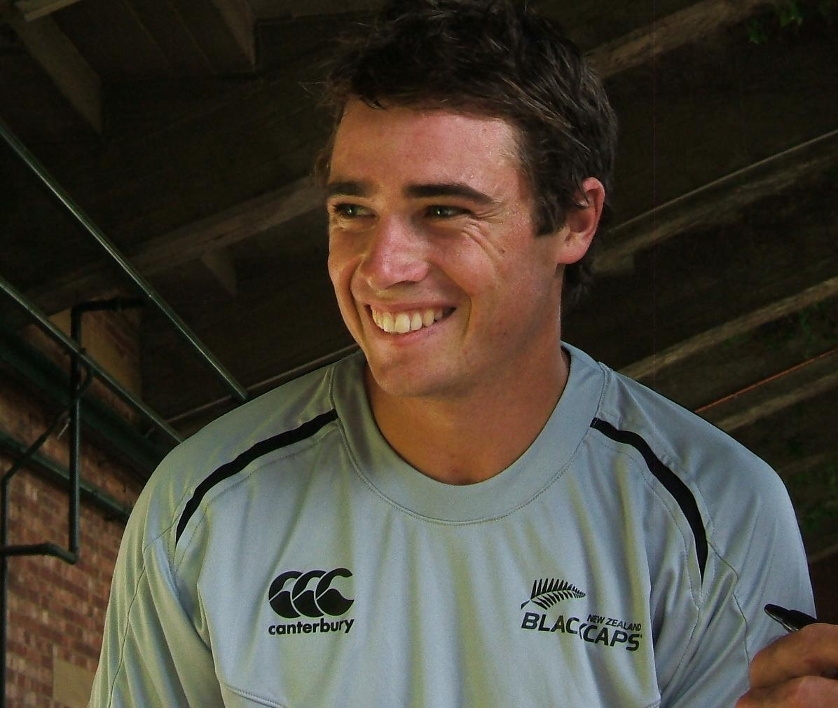 Tim Southee at a training session at the Adelaide Oval